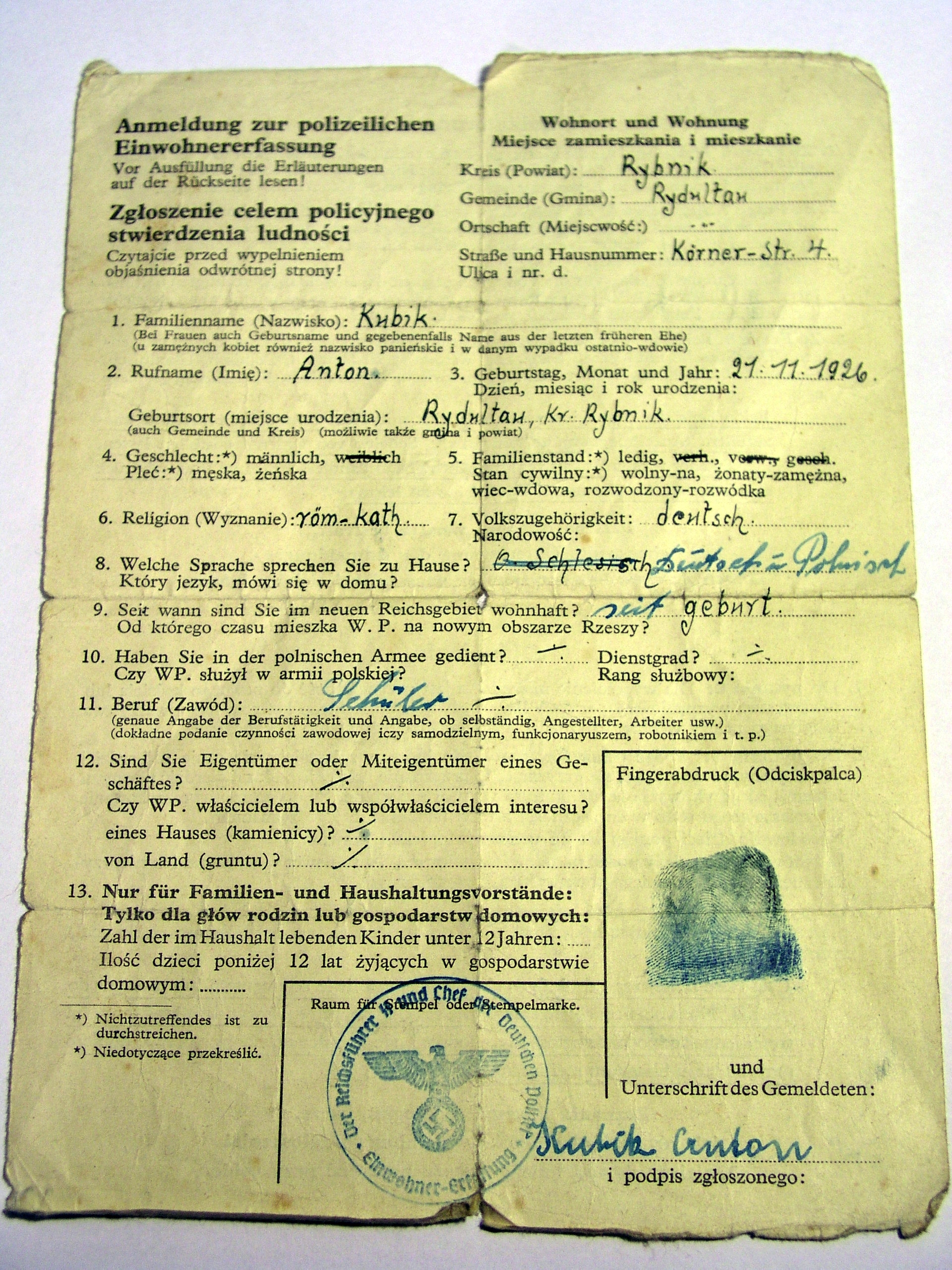 German identity card provided in occupied Poland, around 1940